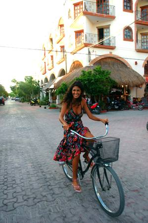 Playa del Carmen is at the heart of the Riviera Maya, only 37 miles south of Cancun. Visitors often get so enchanted by this village that some of them never leave at all.